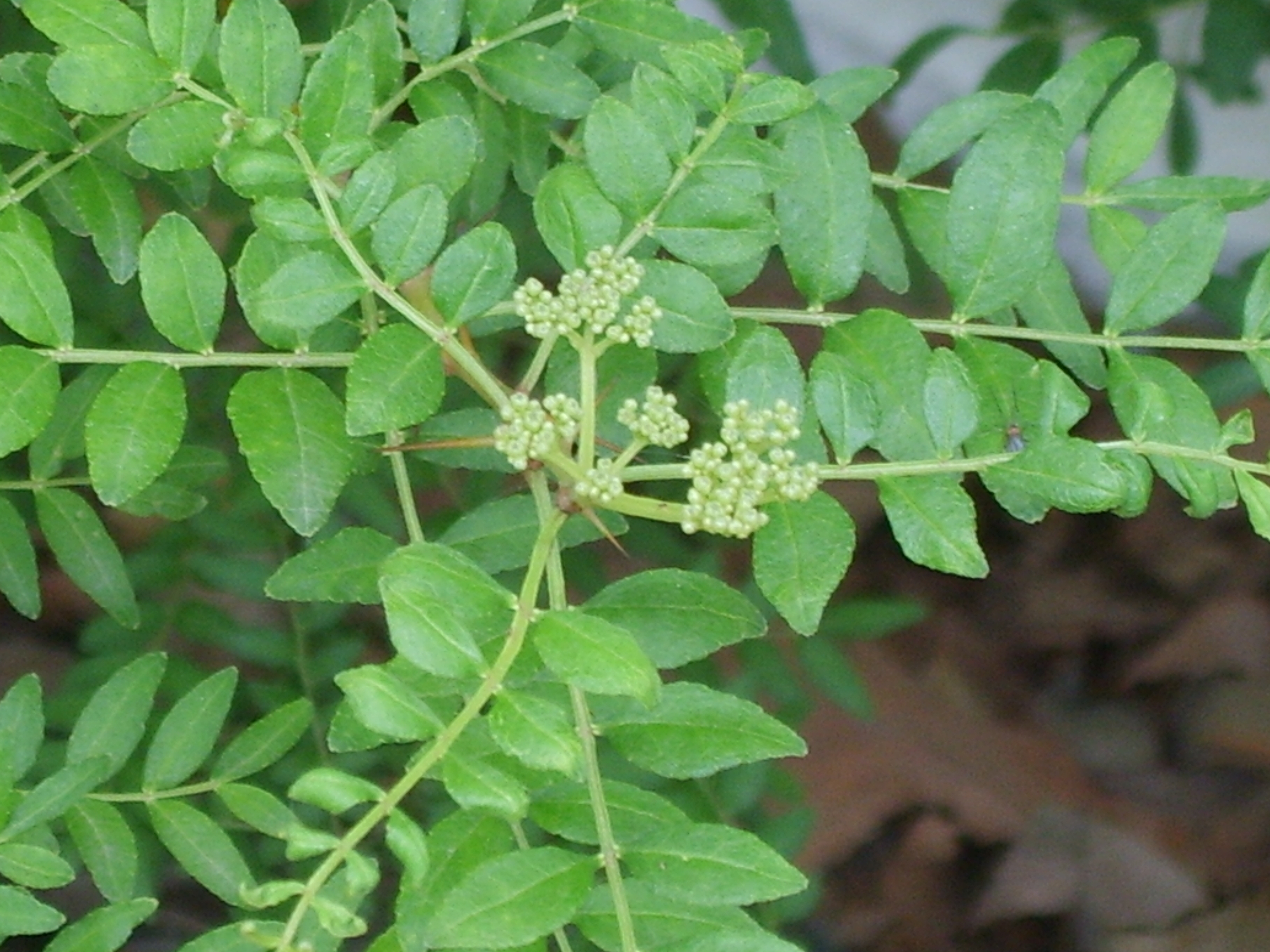 Zanthoxylum schinifolium